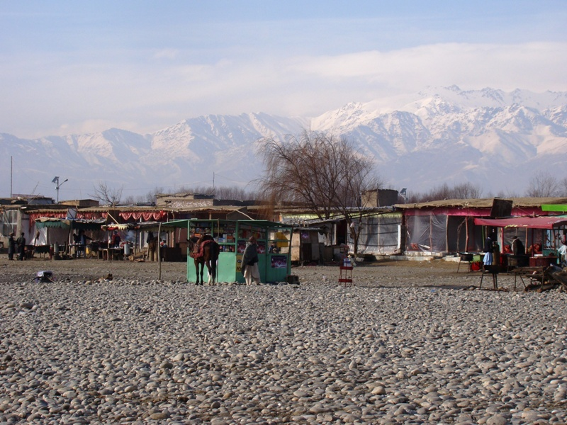 Beside of Golbahar River